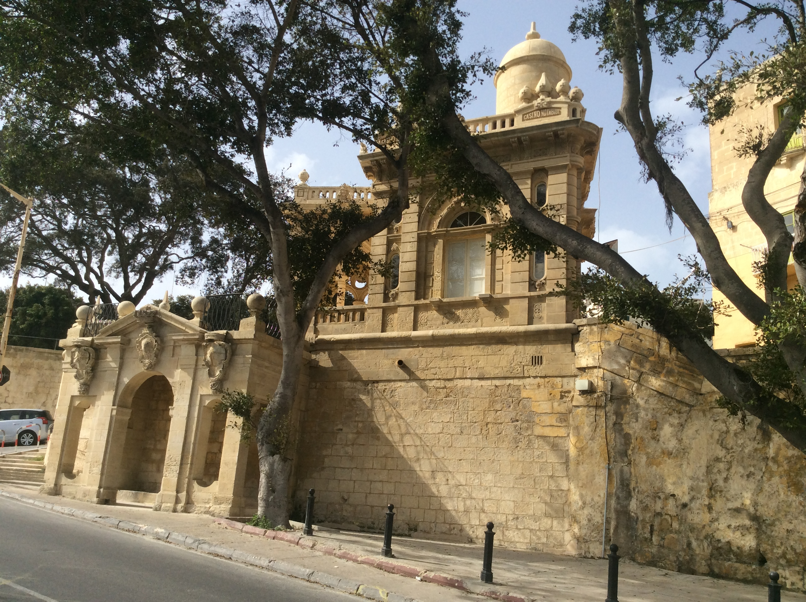 Casino dei Nobili, Casino Notabile